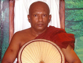 Waharaka Abayarathanalankara Theroසිංහල: වහරක අභයරතනාලංකාර ස්වාමින්වහන්සේ